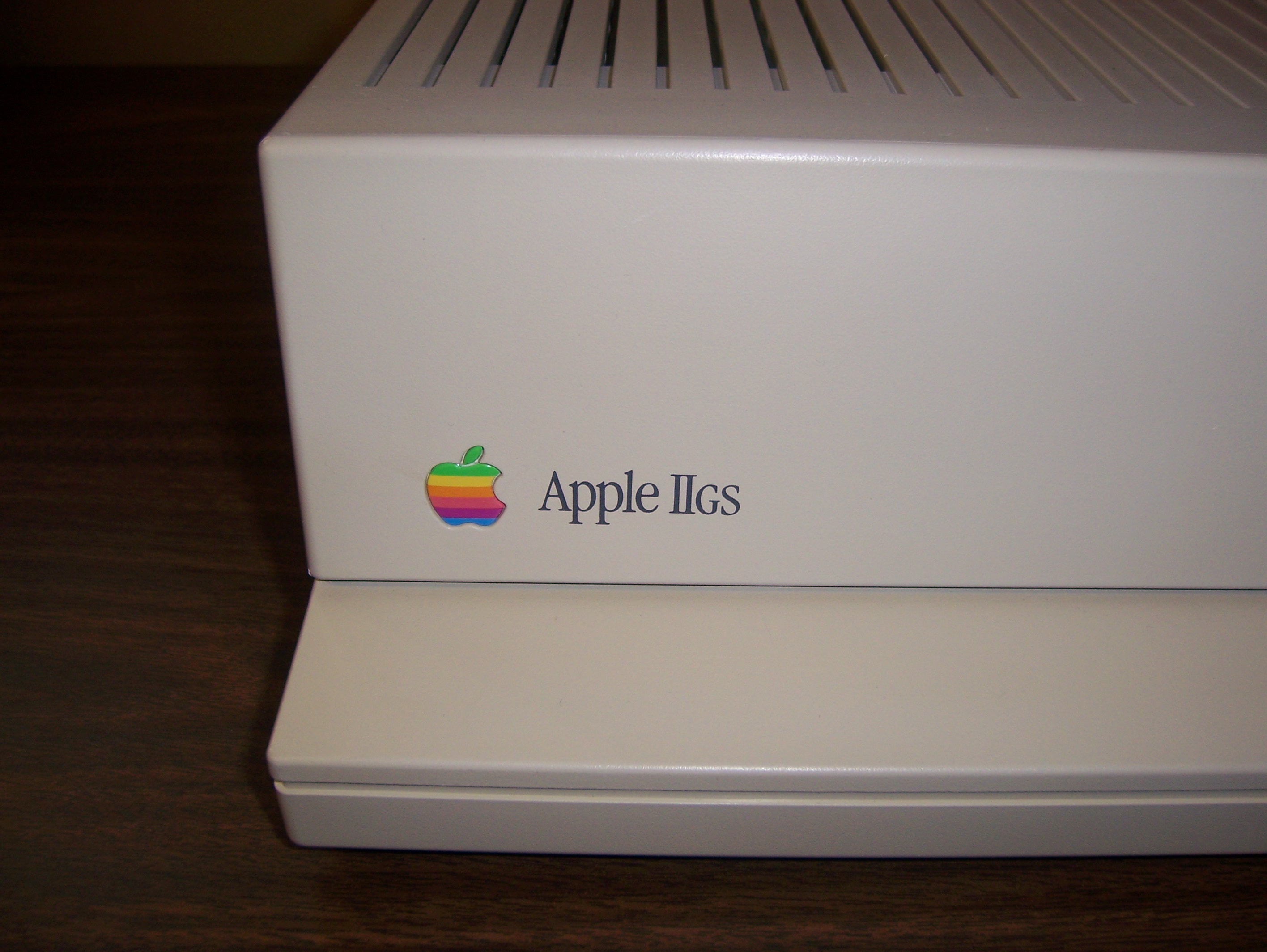 Close-up of Apple IIgs logo